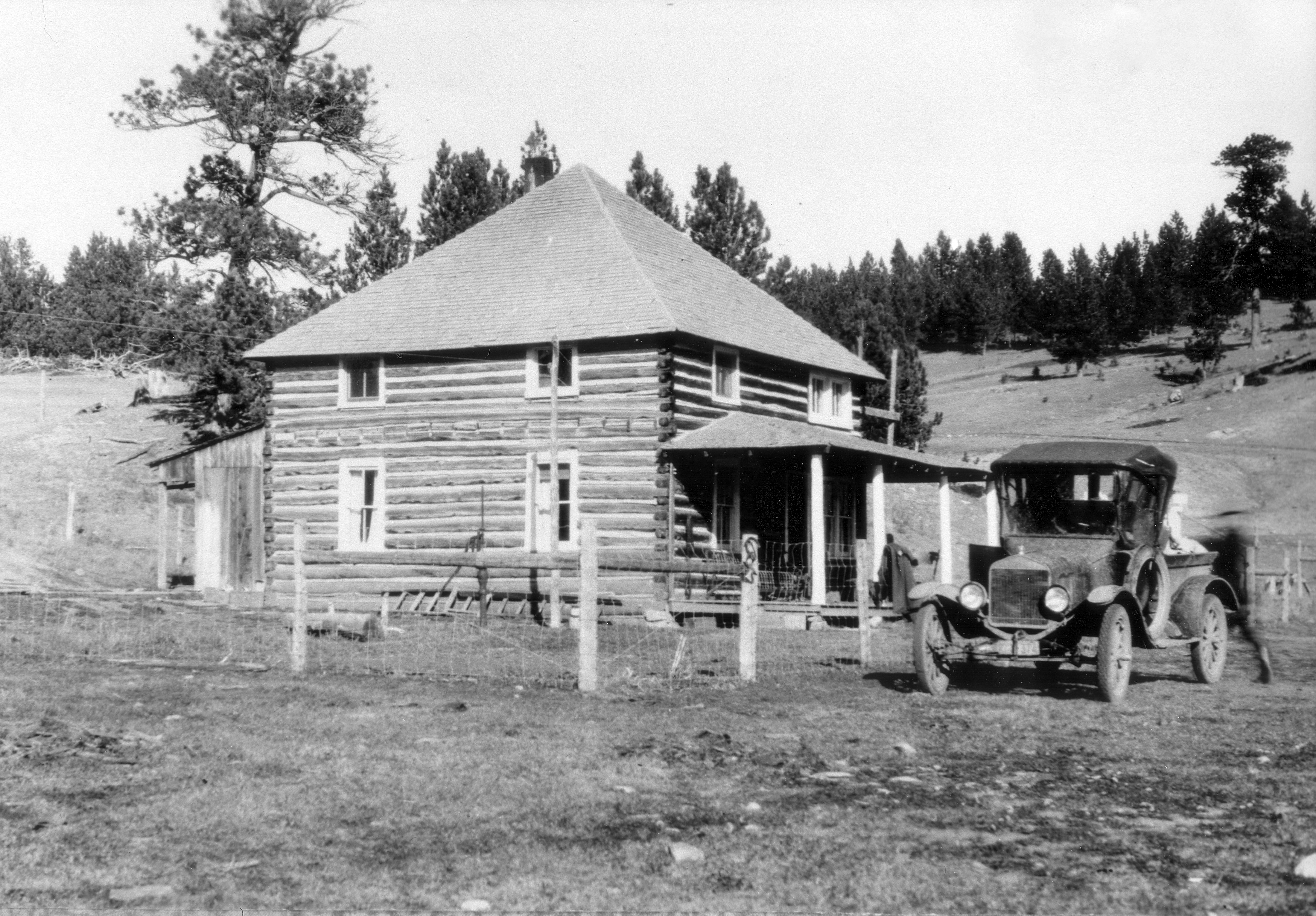 Judith Station, listed on the National Register of Historic Places, was built in 1905 and is now a rental cabin on the Lewis and Clark National Forest, Judith Ranger District, west of Utica, Montana